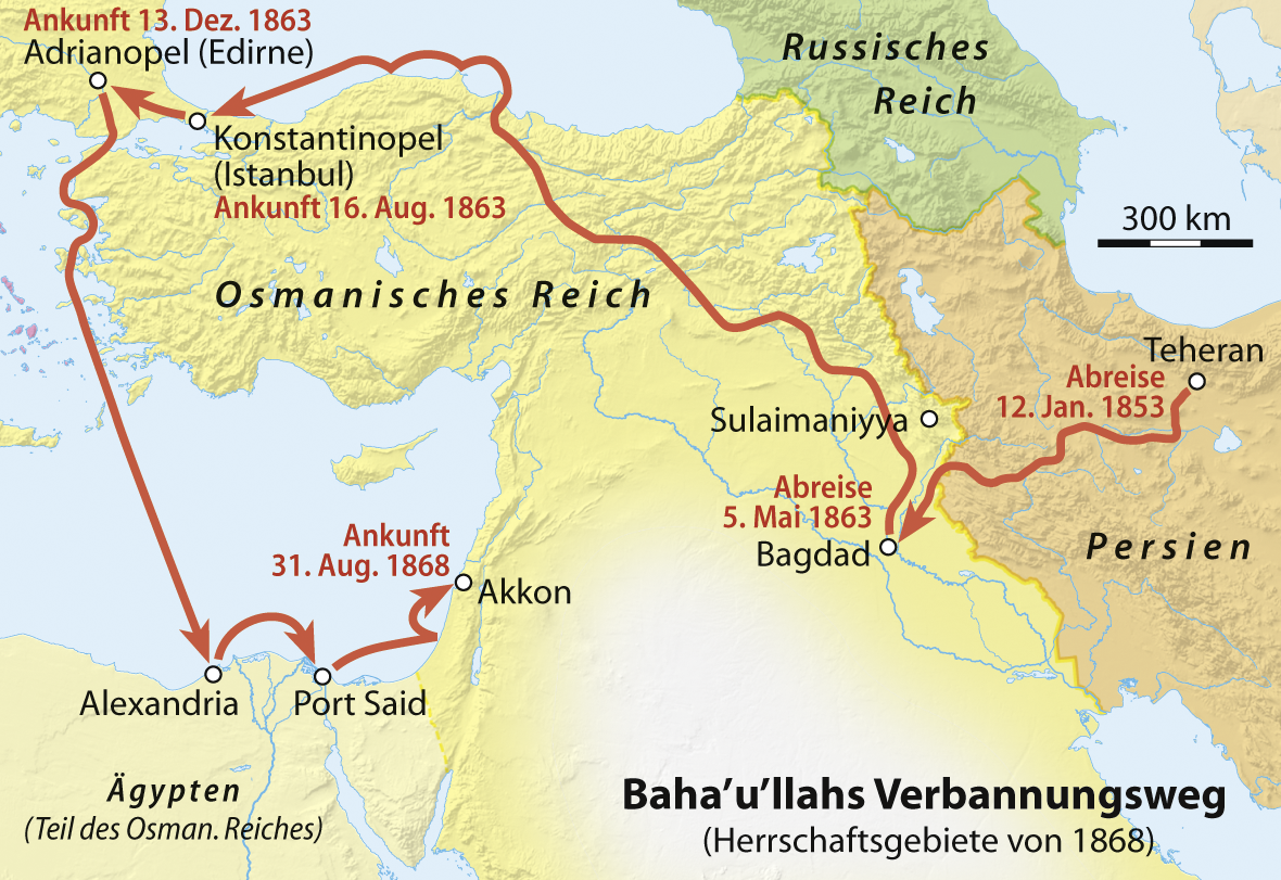 Bahá'u'lláh's banishment